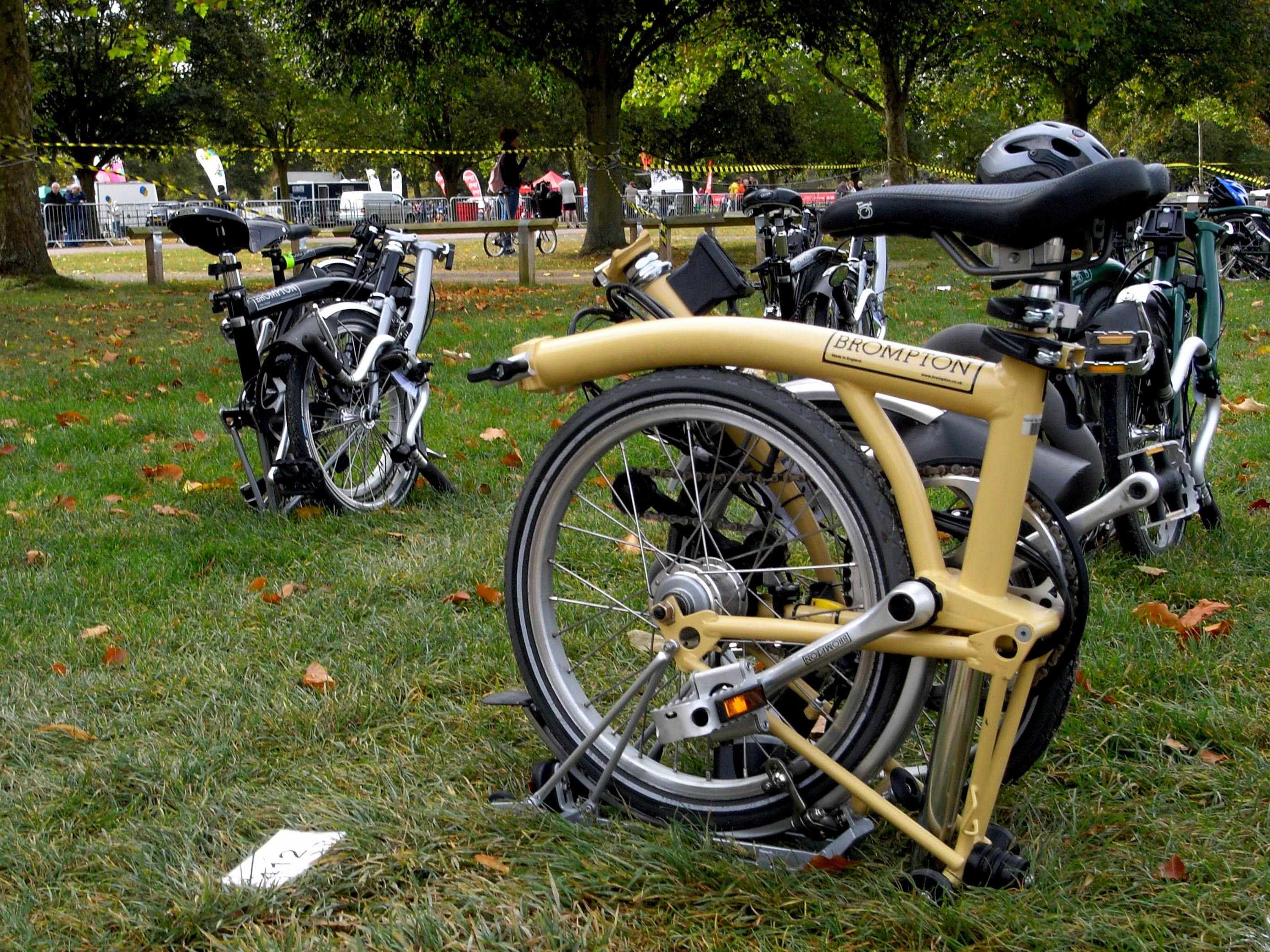 Folding Brompton Bicycles waiting during the Brompton World Championships in England during 2009.